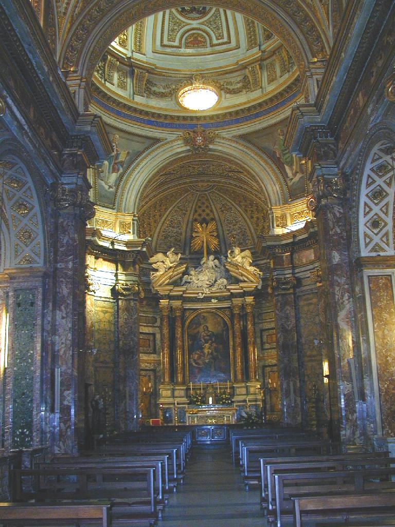 Rome, interior of St. Anthony of the Portuguese